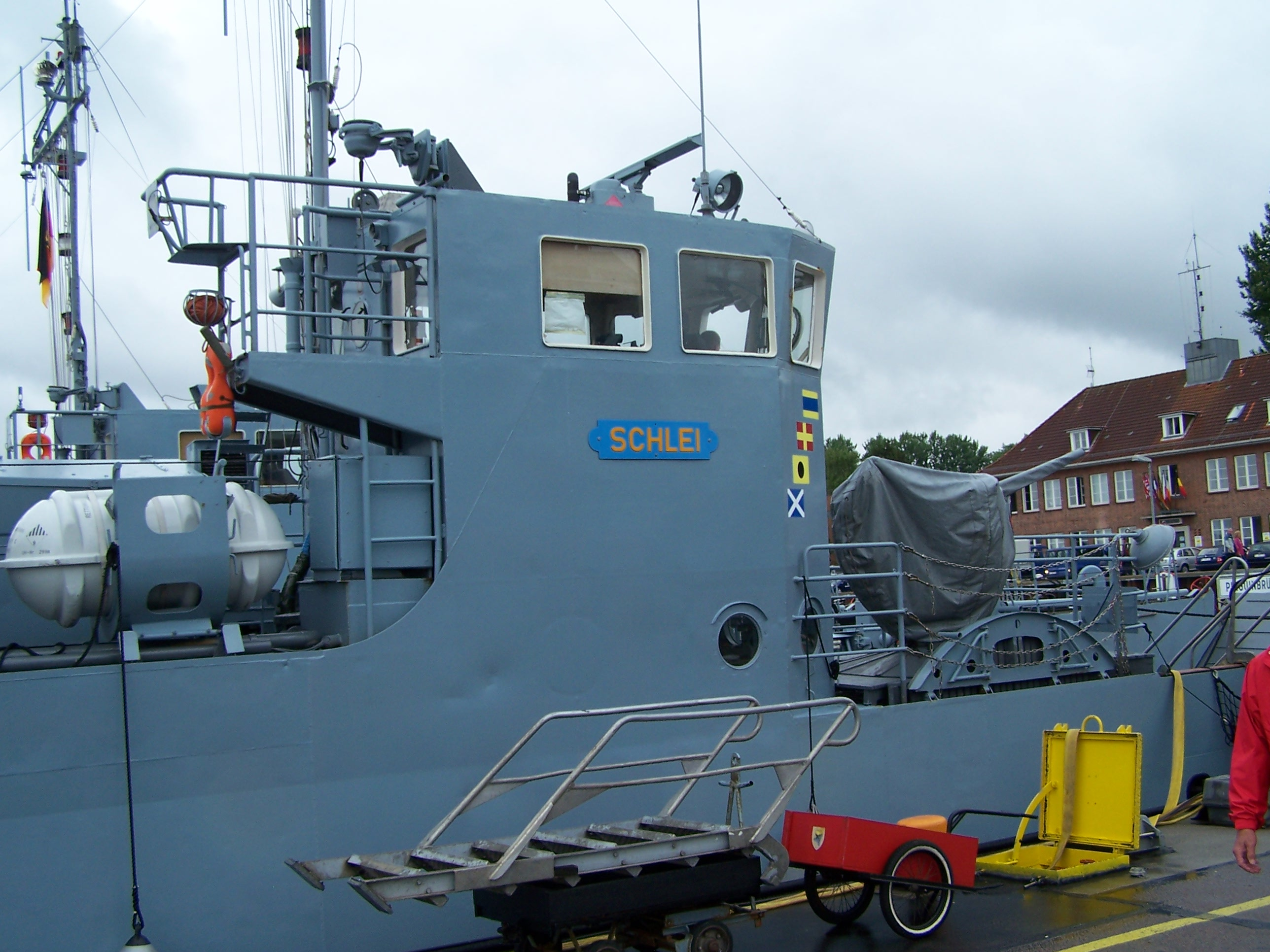 Schlei, a utility landing craft of the German Navy as seen at the 2007 Kiel Week